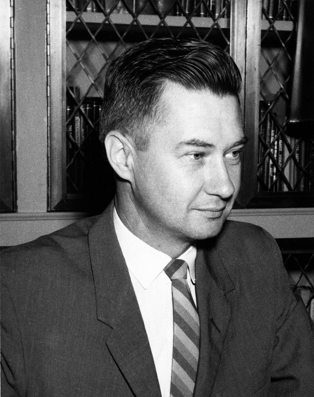 William S. Powell (Bill Powell) in UNC Library, c.1970. From the General Negative Collection, State Archives of North Carolina.